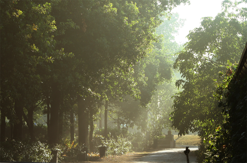 Entrance Landgoed Maple Farm – Gallery & Sculpture garden De Beeldenstorm Roosendaalsebaan - Bosschenhoofd